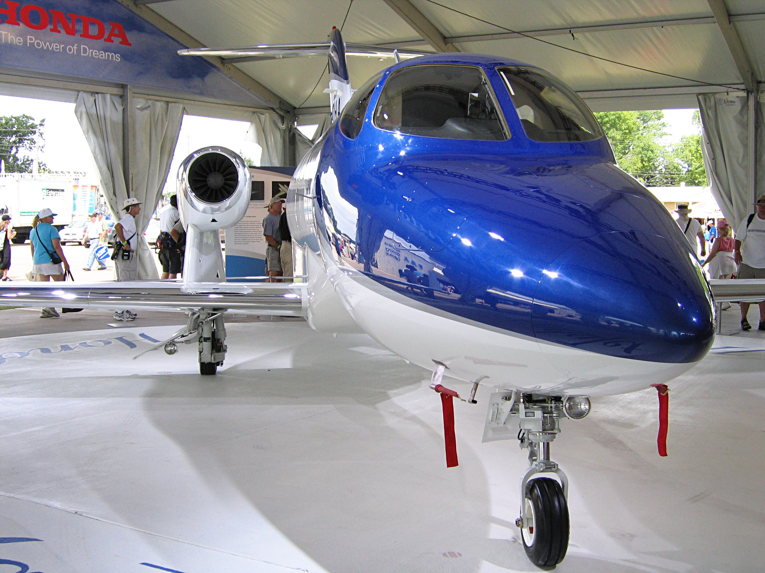 HondaJet, from front area.